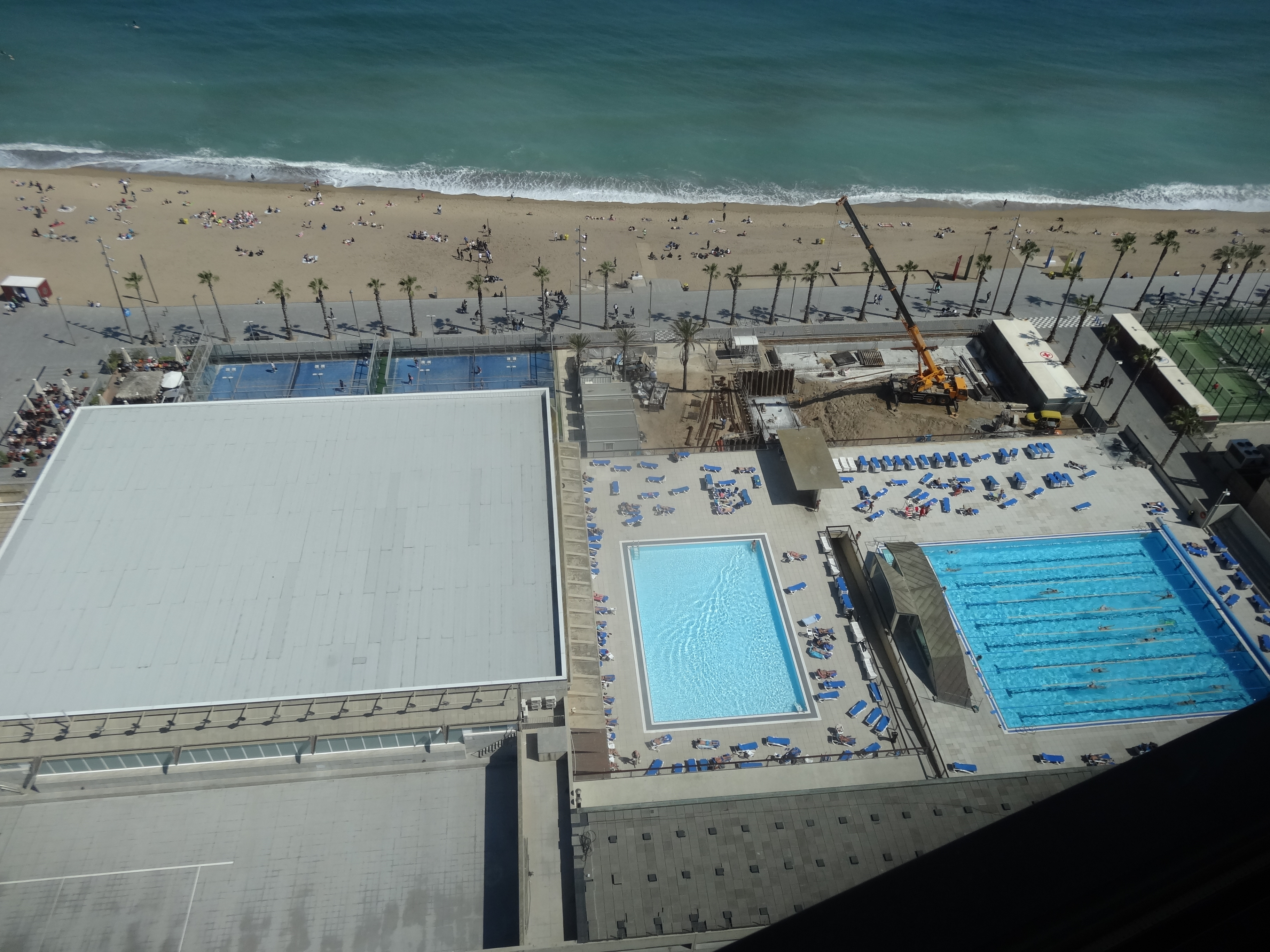 Views from the restaurant located at the top of Torre de Sant Sebastià (port of Barcelona).